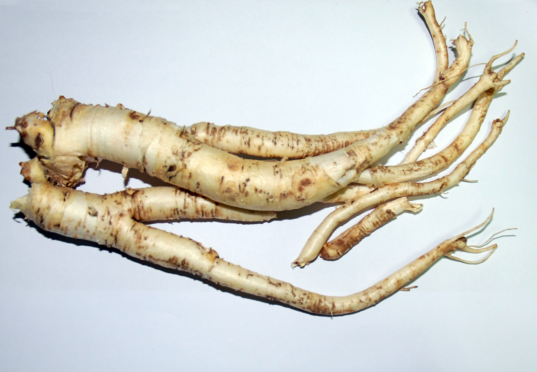 The root of platycodon grandiflorus(Korean Bellflower)